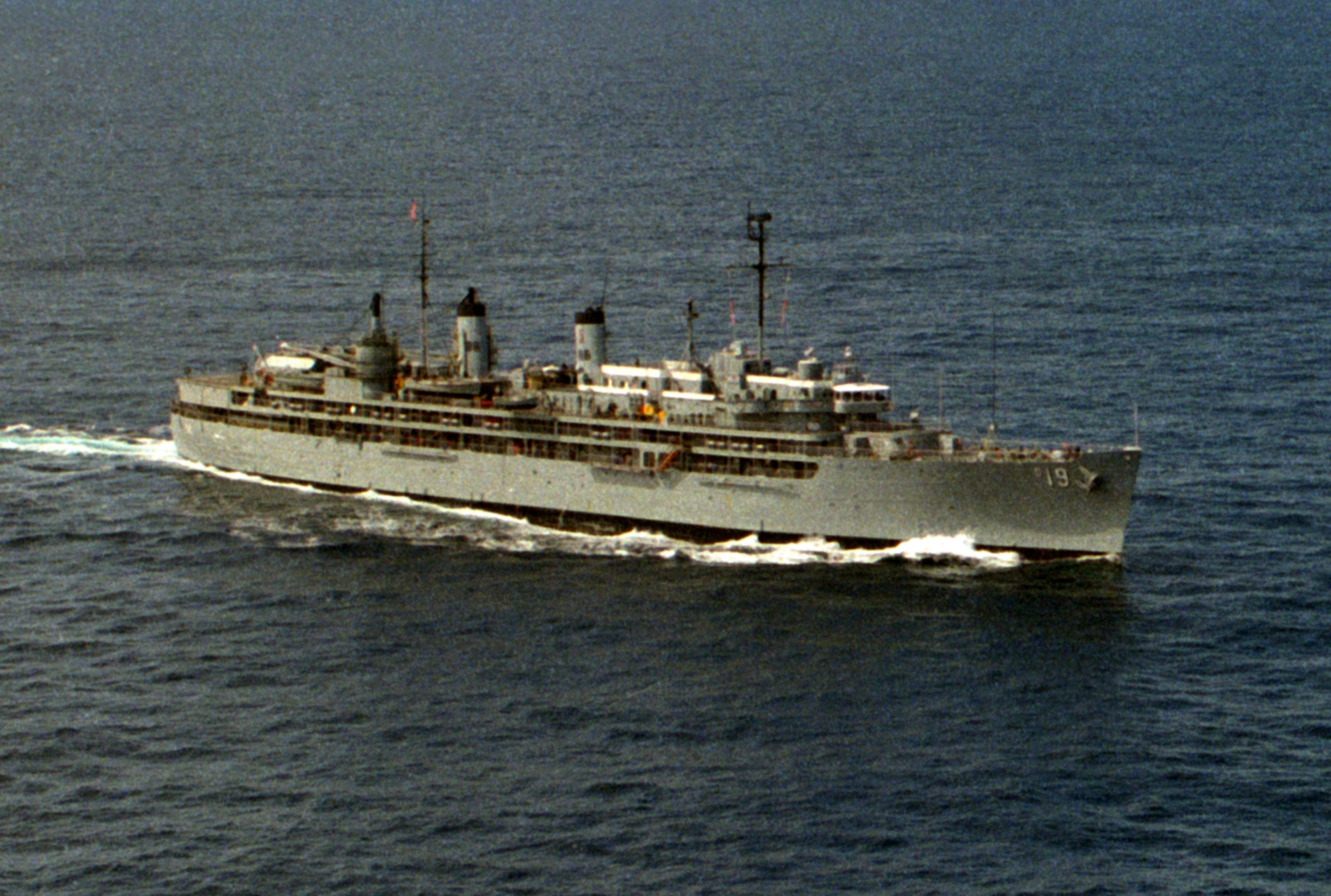 The U.S. Navy destroyer tender USS Yosemite (AD-19) underway in the Mediterranean Sea on 12 March 1988.